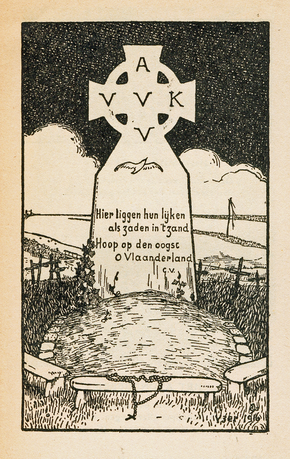 Drawing of a flemish remembrance cross (World War I), by the belgian painter and draughtsman Joe English (Bruges 1882 - Vinkem 1918)